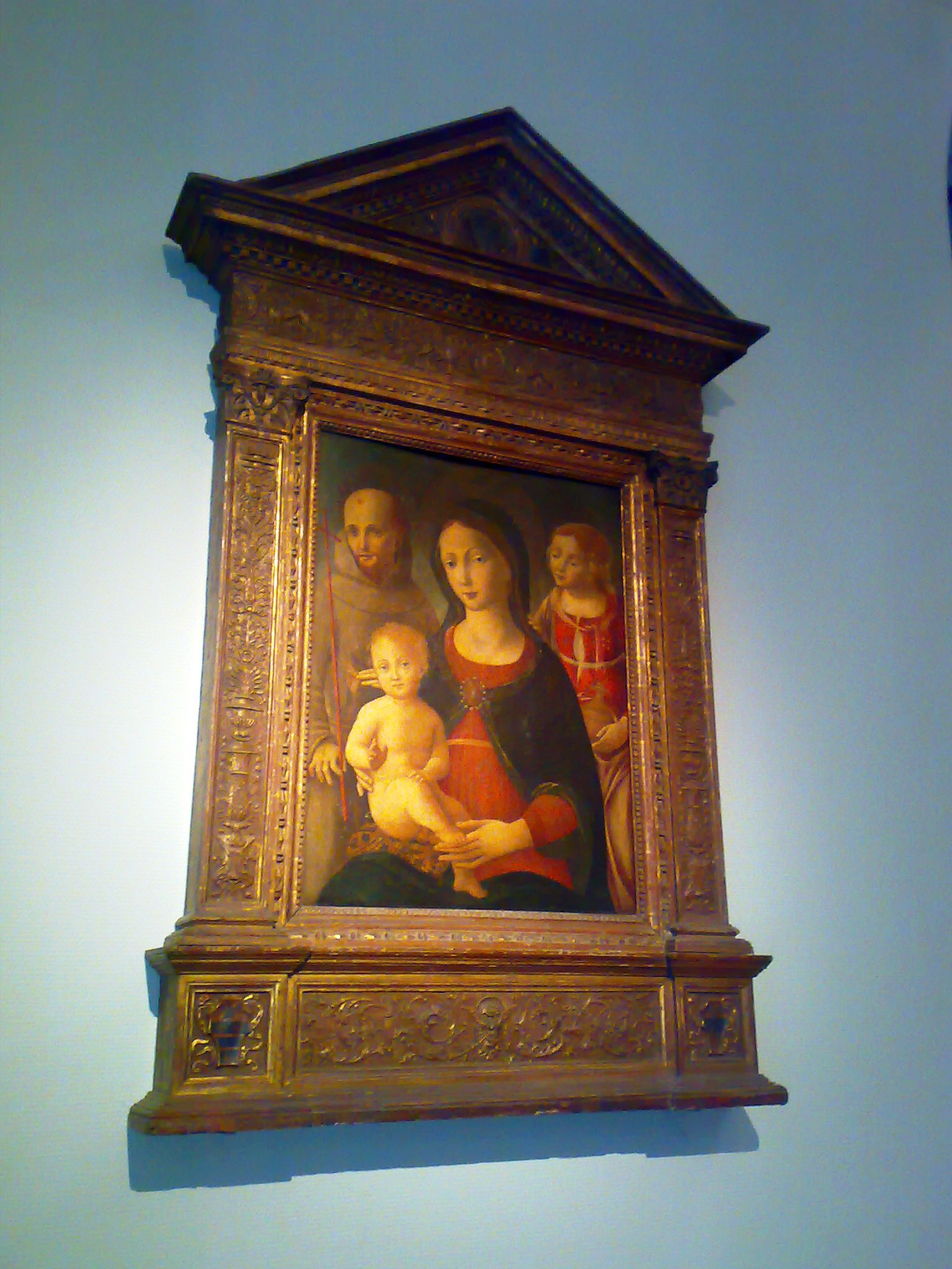 15th century (1400s). Artefact in Brussels Royal Museum of History and Art